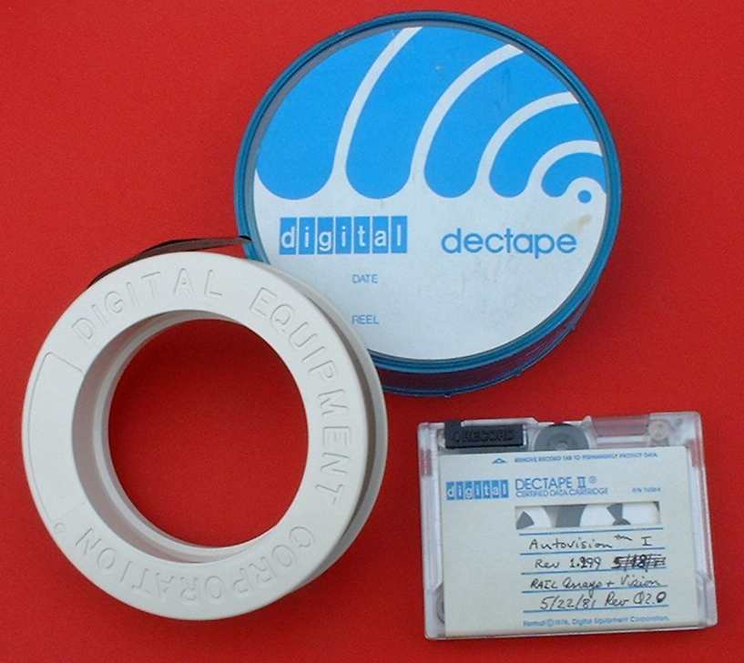 DECtape and DECtape II Magnetic tapes used with early Digital Equipment Corporation computers. I took this photo of artifacts in my personal collection. --agr 20:45, 11 Aug 2004 (UTC)